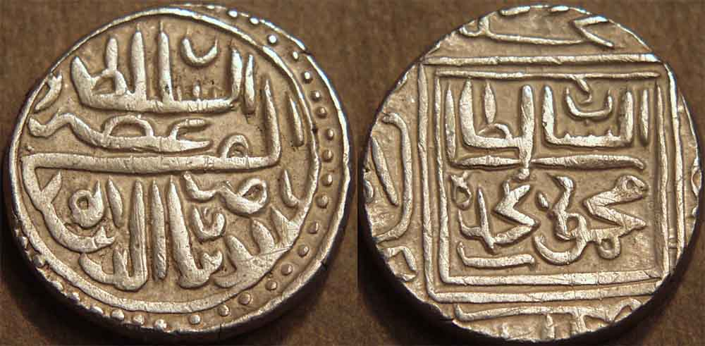 Silver heavy tanka of Nasir ud-din Mahmud Shah I (1458-1511) of Gujarat, minted at Muhammadabad